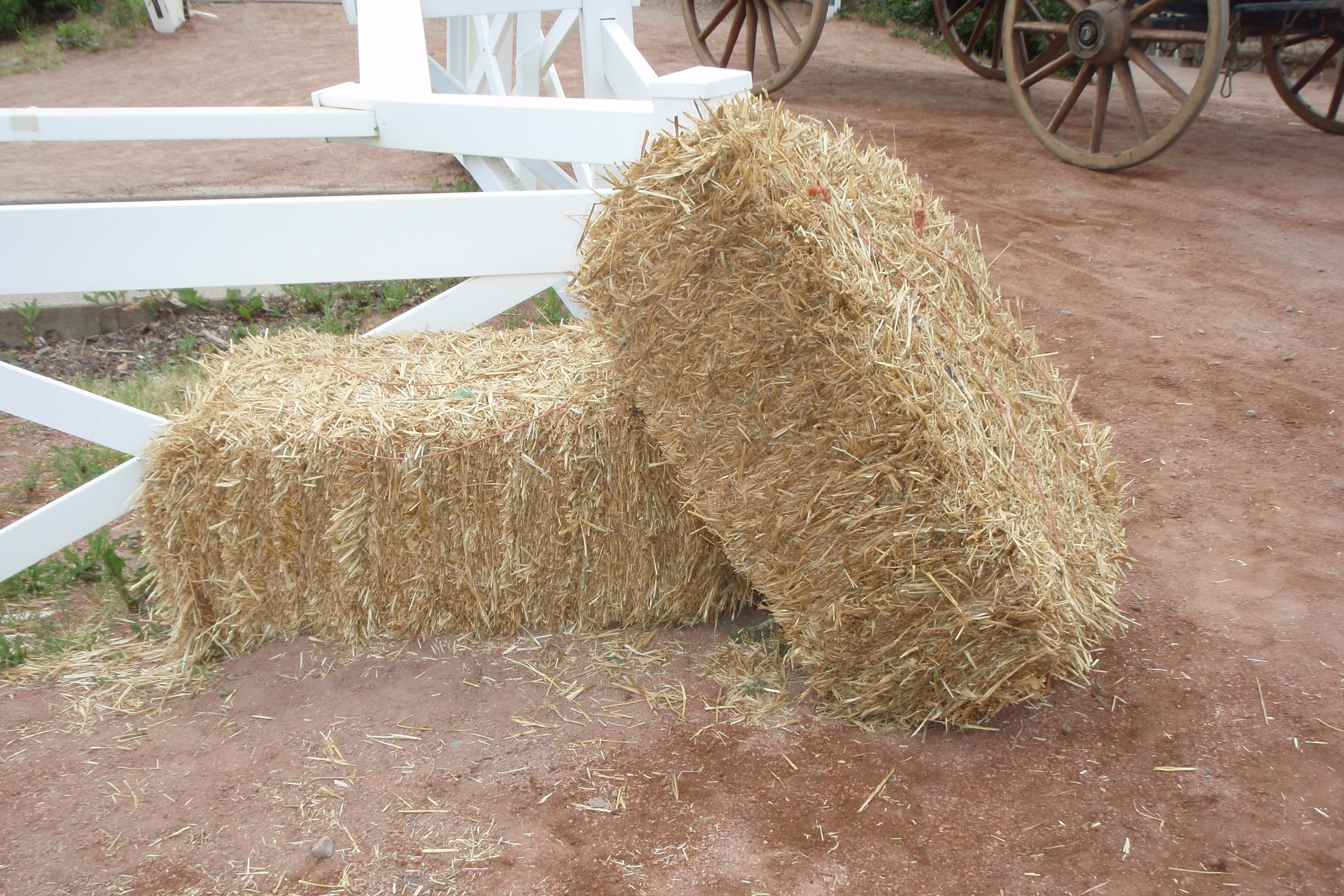 Decorative straw bales at the Calgary Stampede.